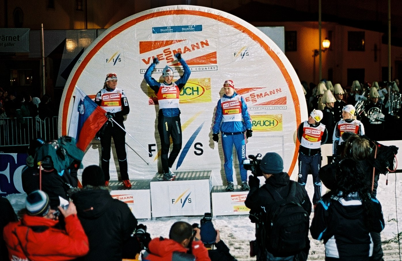 Virpi Kuitunen, winner of the Slottsprinten, Stockholm 2007 2nd Petra Majdic and 3rd Anna Dahlberg